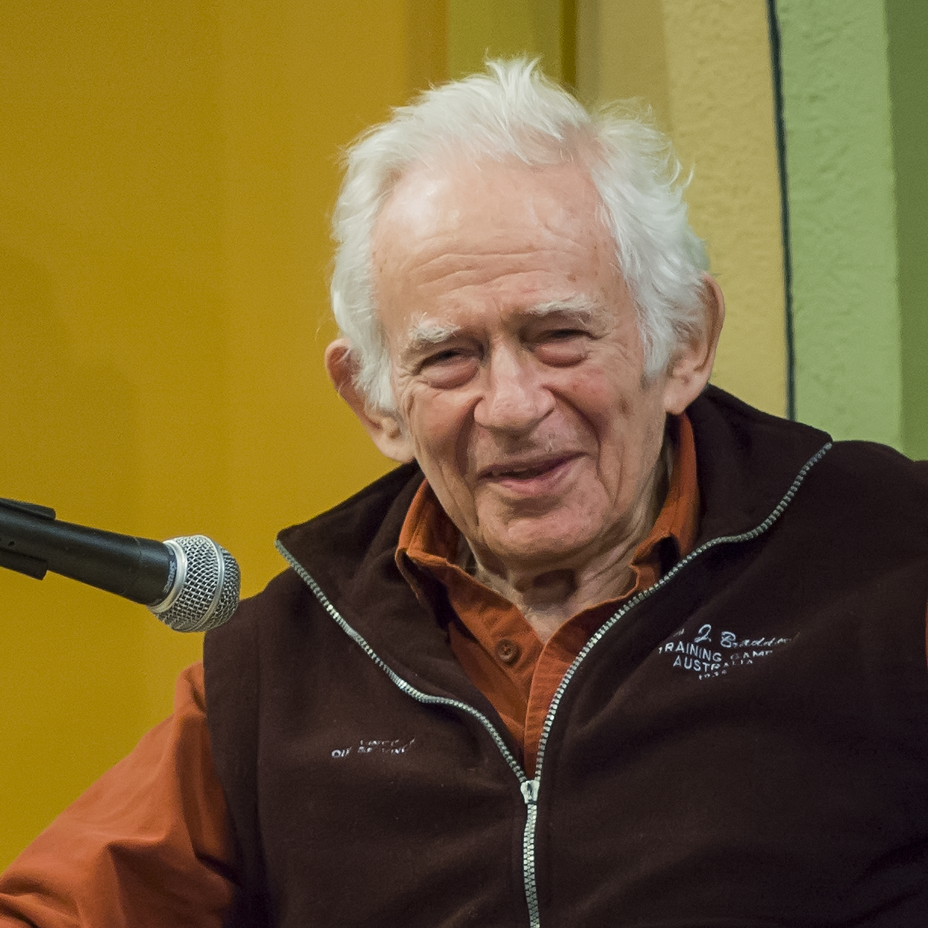 Norman Mailer speaks in Provincetown, MA, during the annual Norman Mailer Society Conference, 2006.